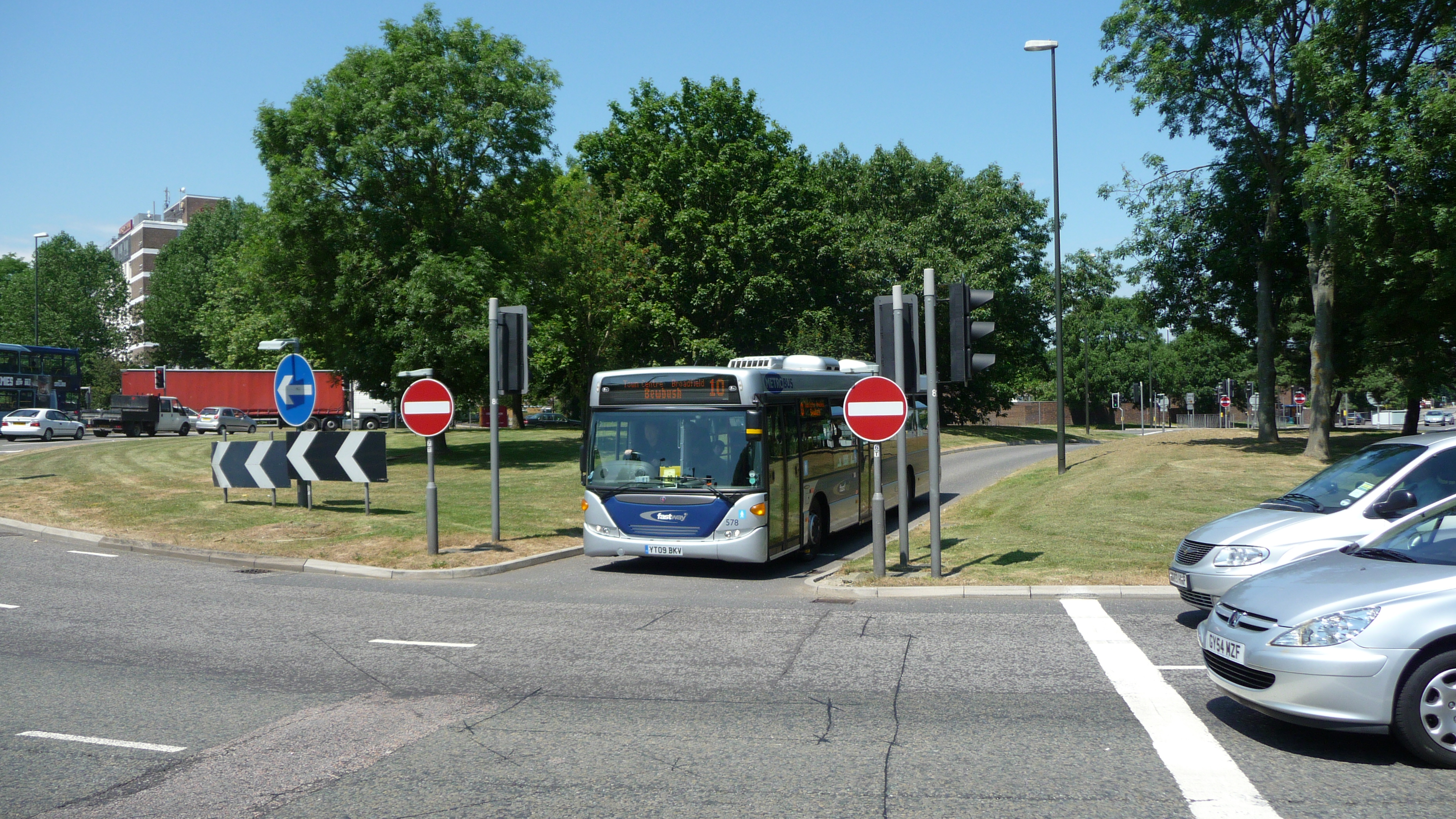 Metrobus 578 (YT09 BKV), a Scania OmniCity, in Crawley, West Sussex, on route 10, driving out of the bus lane over the middle of Tushmore Roundabout.